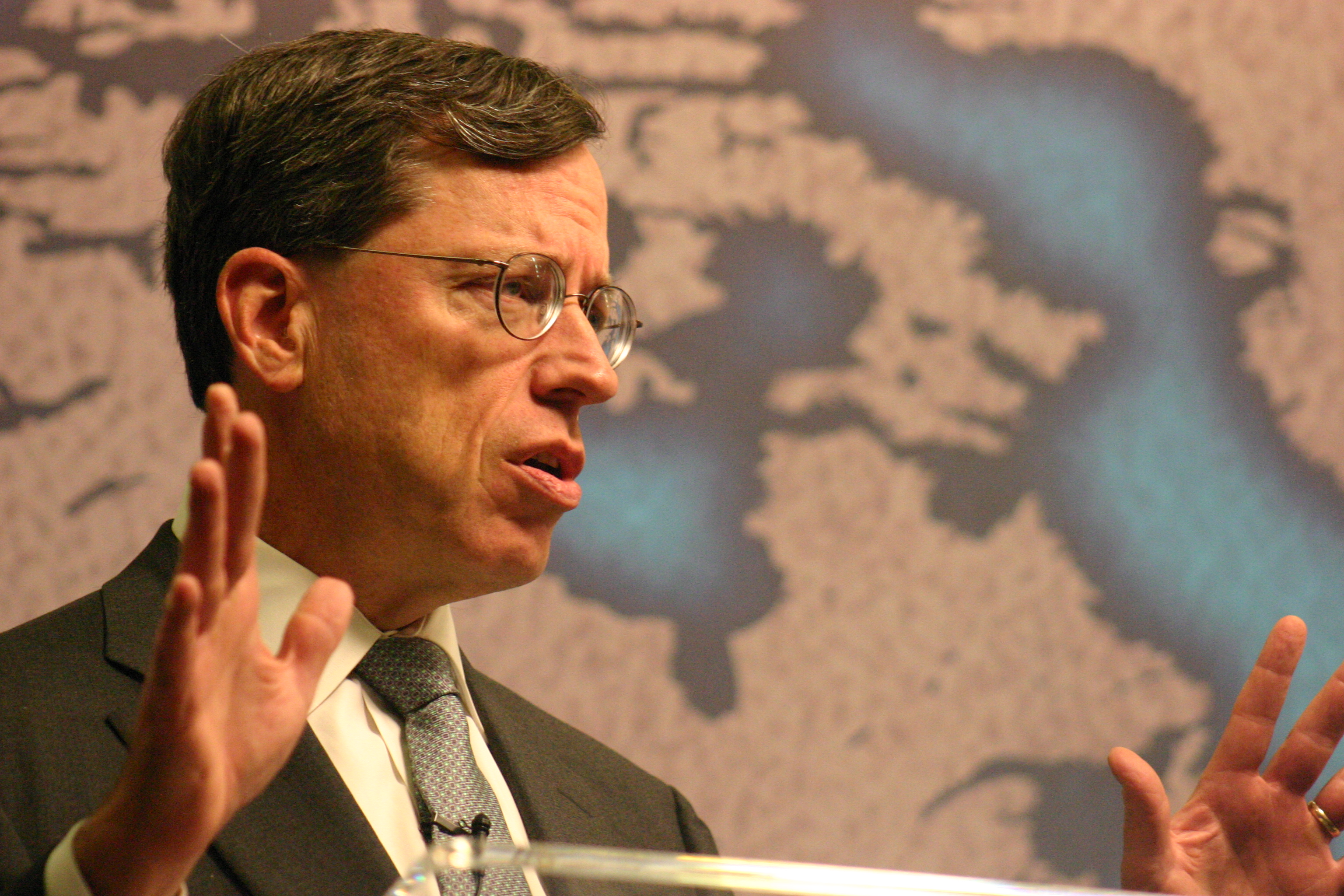 Philip D Zelikow, University of Virginia